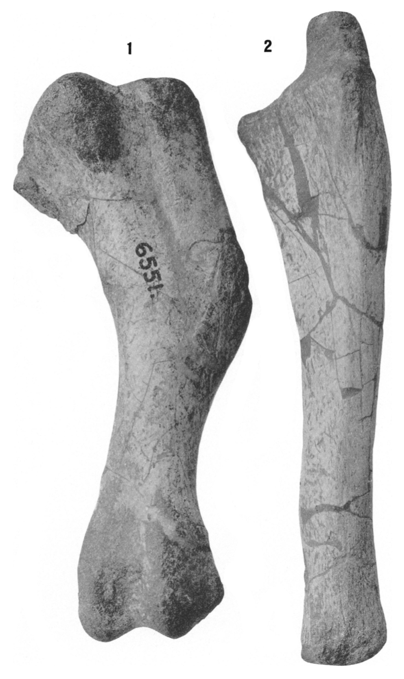 Fig. 1. Right humerus of Mandschurosaurus mongoliensis. Cotypei No; 6551, A.M.N.H. Posterior view. Fig. 2. Right ulna of same. Anterior view. Both figures about one-half natural size.